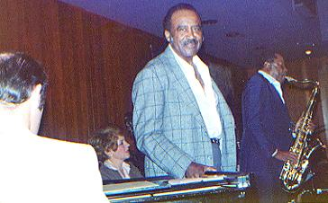 Jazzmen Harry "Sweets" Edison and Eddie "Lockjaw" Davis at the Village Jazz Lounge in Walt Disney World